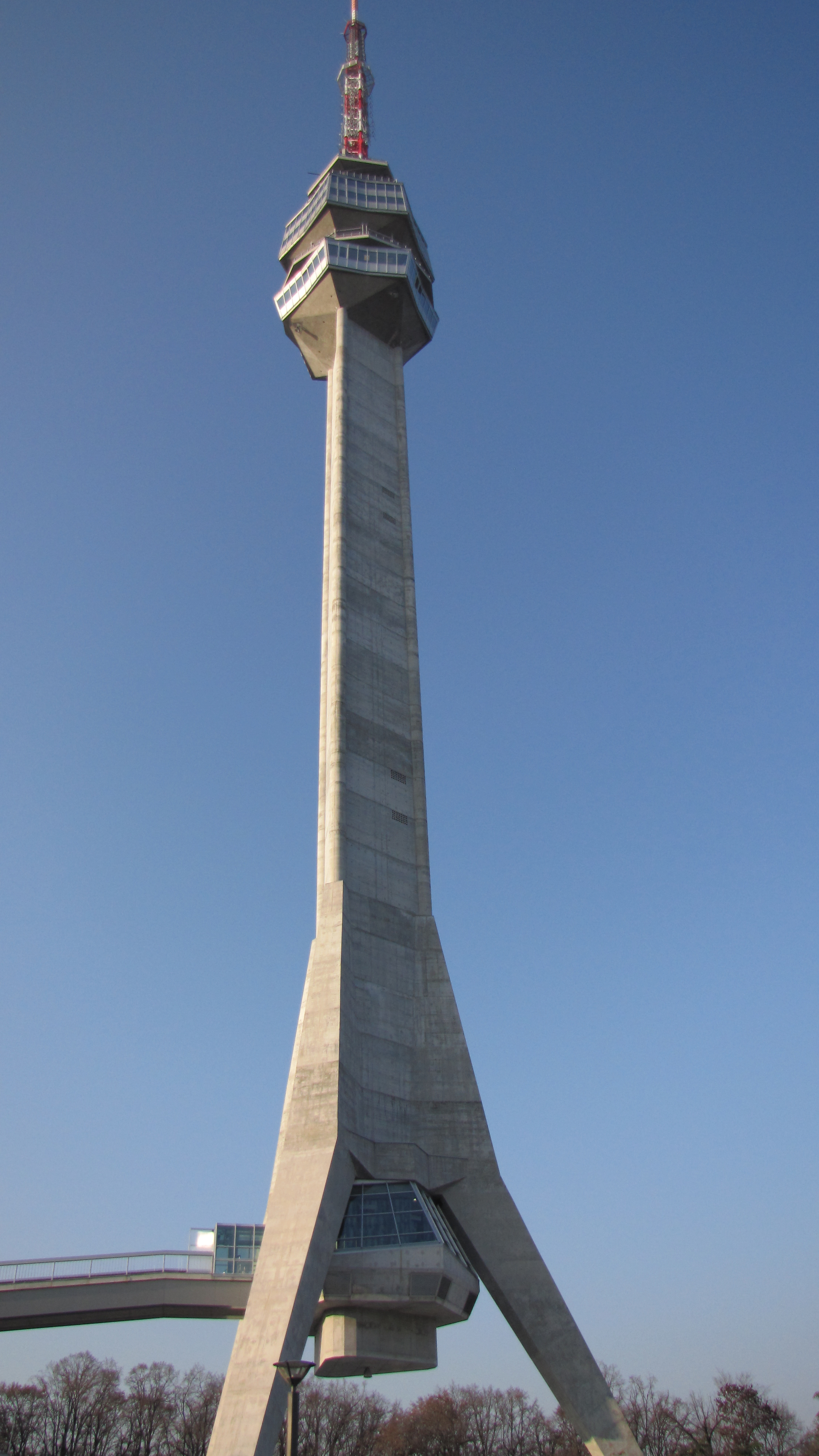 Tower Avala